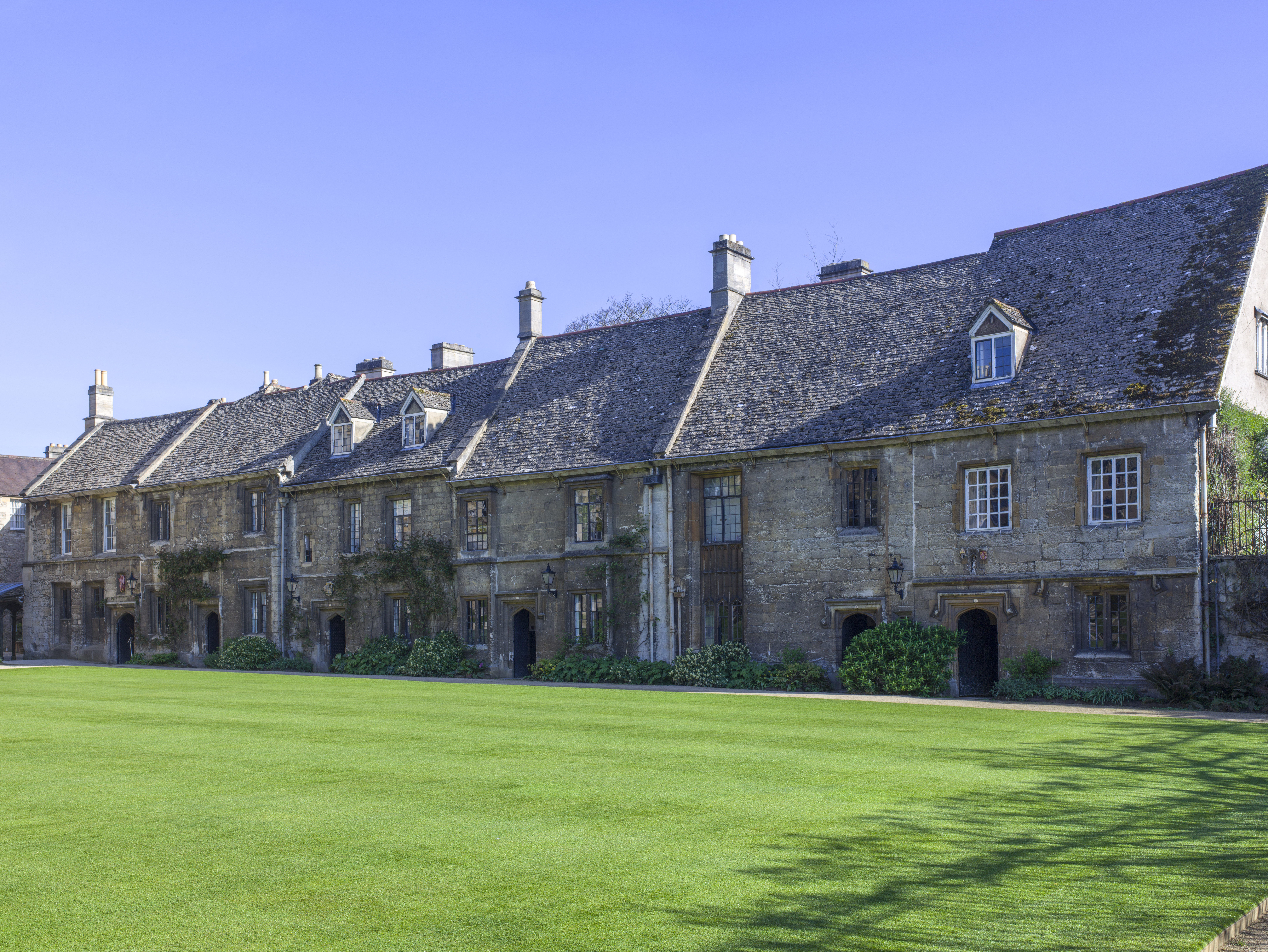 Worcester College (Oxford University) founded in 1283 as Gloucester College, 1542 as Gloucester Hall, and 1714 as Worcester College. South Range.